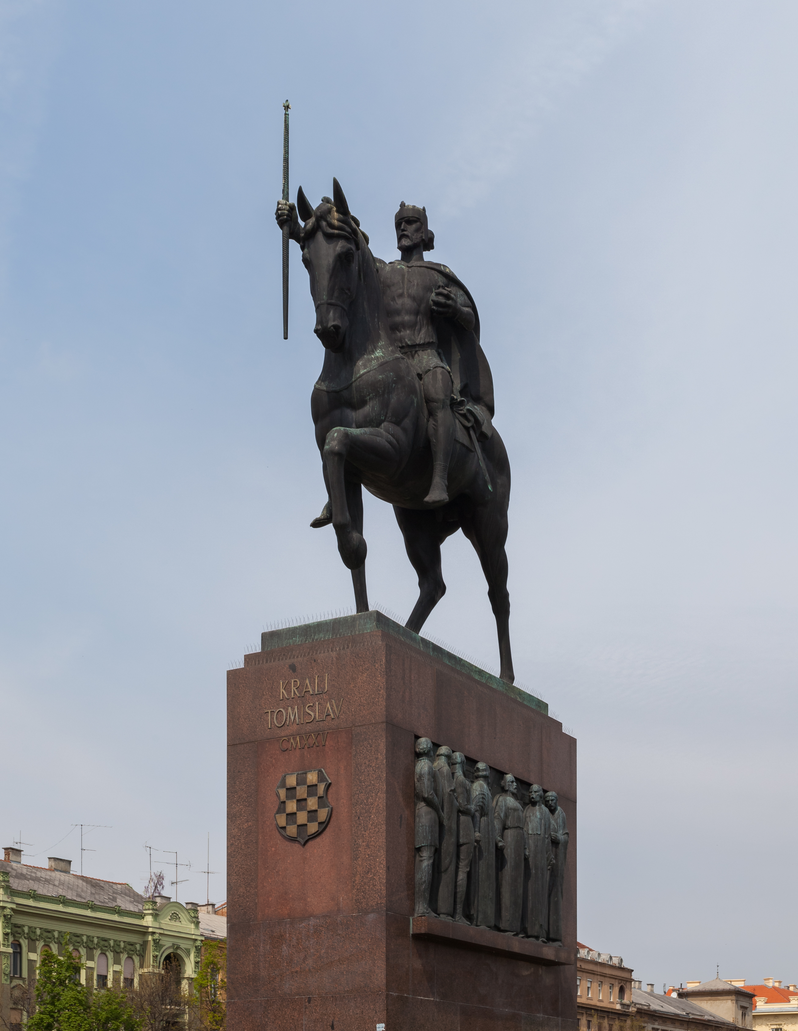 Statue of King Tomislav of Croatia, Zagreb, Croatia